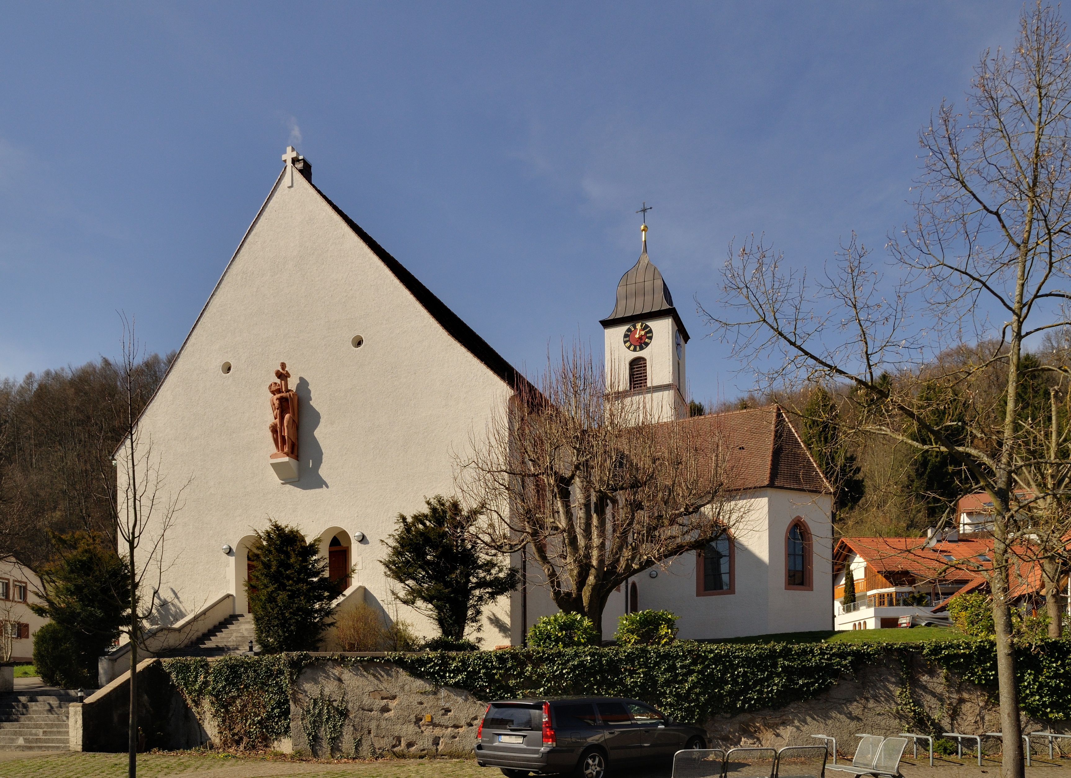 Rheinfelden: Saints Felix and Regula church